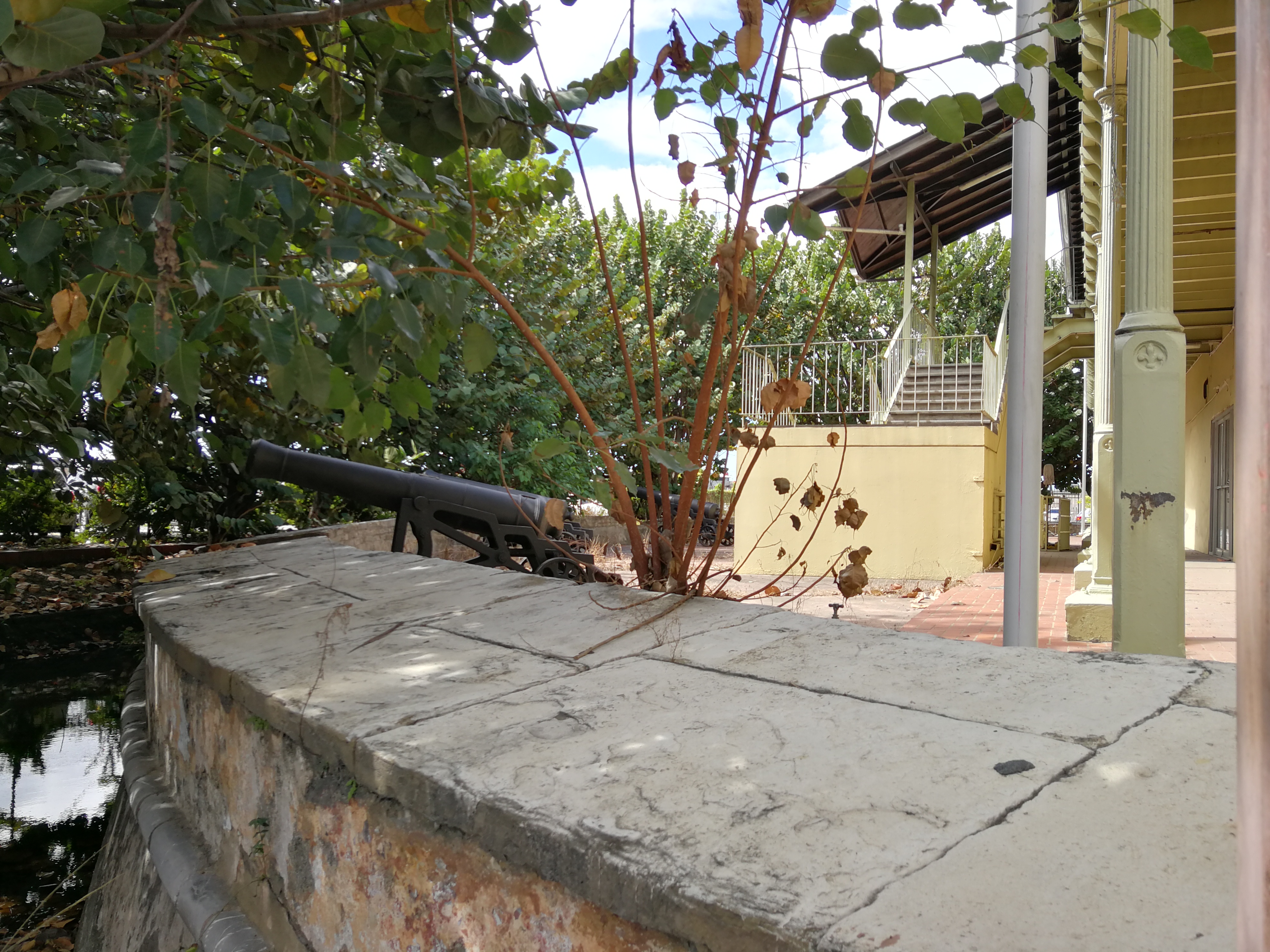 Wall and cannons of the Fort San Andres heritage site in Port of Spain, Trinidad and Tobago.